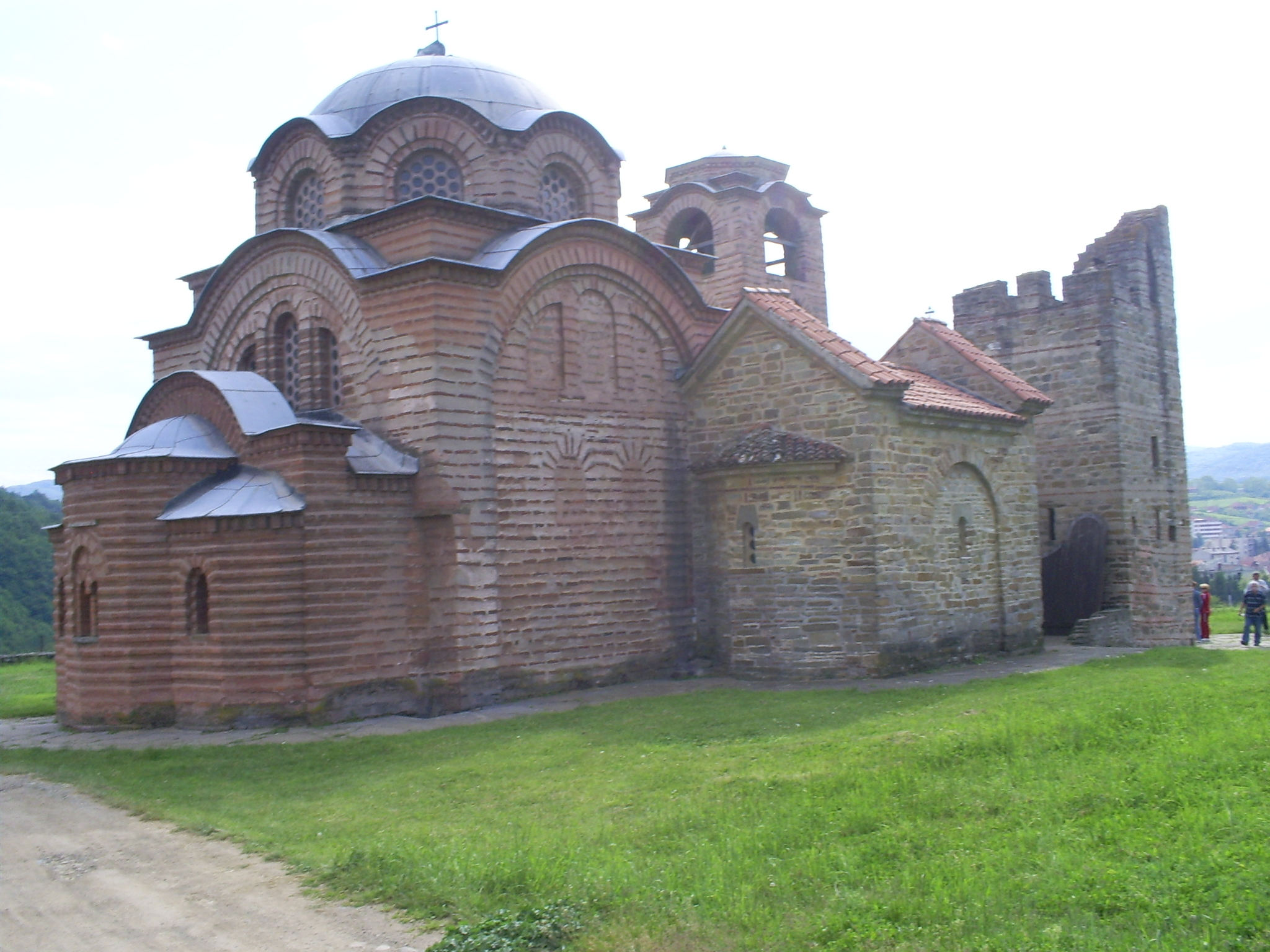 Saint Nicolas monastery, from middle of XII century, in Kuršumlija, Serbia.